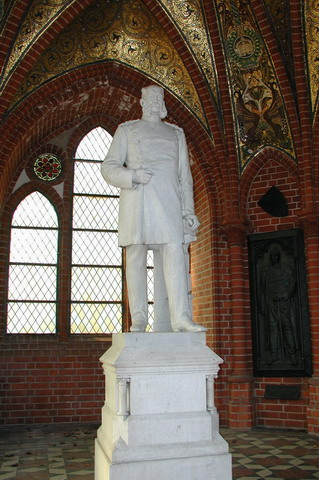 Statue of Wilhelm I. at the Grunewaldturm in Berlin. Sculptor: Ludwig Manzel